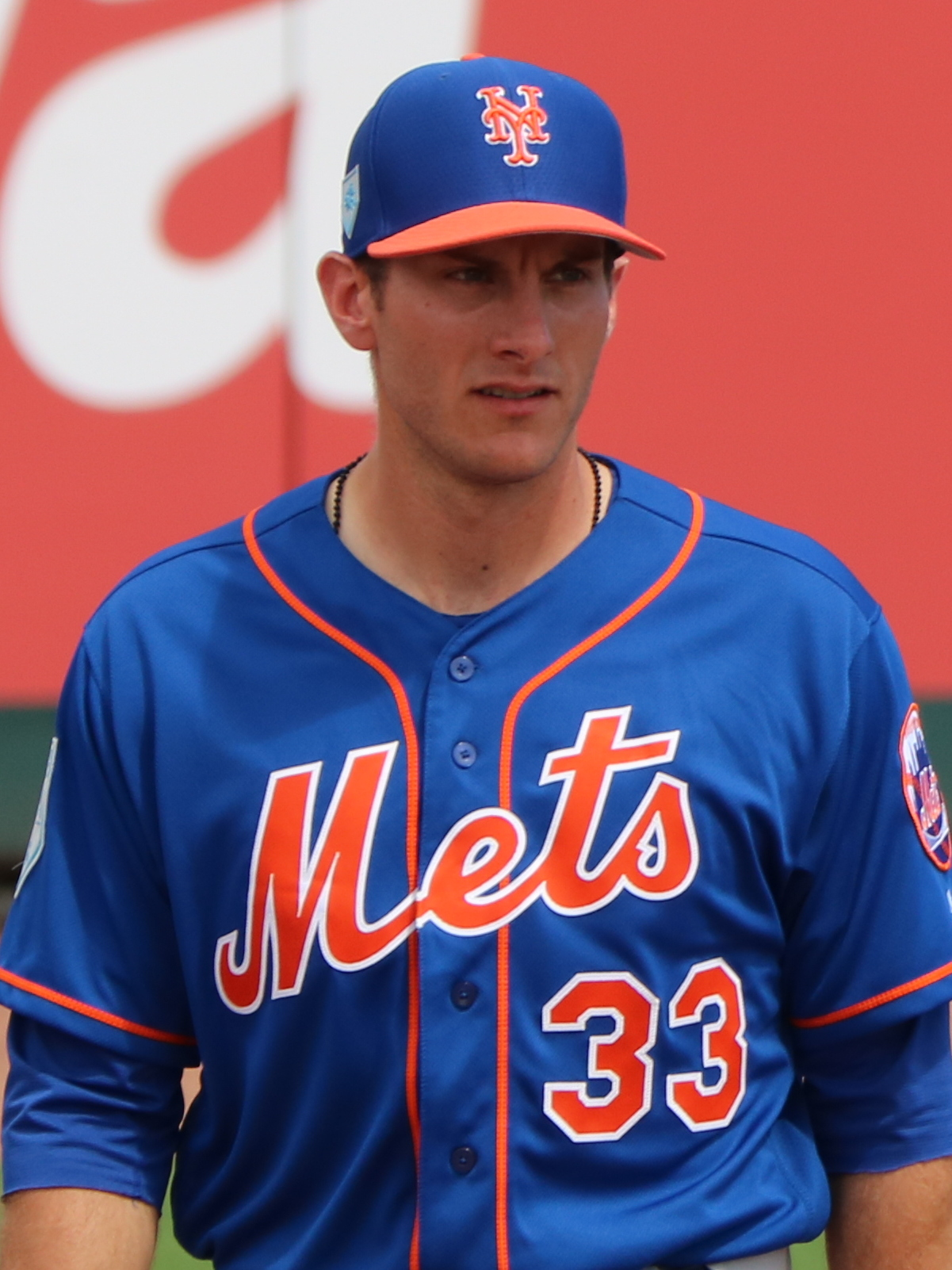 Mets warmups on March, 3, 2019